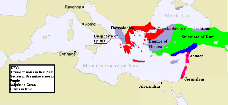 It says 1250 but this is an approximate date. Jerusalem was retaken by the Muslims in 1244. Tourskin 02:54, 13 July 2007 (UTC)